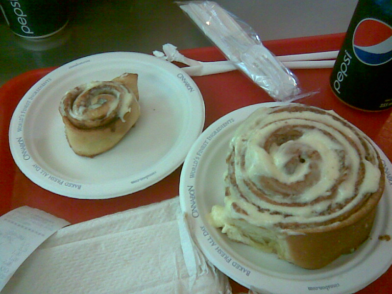 Minibon aside a cinnabon classic in Cinnabon in Albrook Mall - Panama